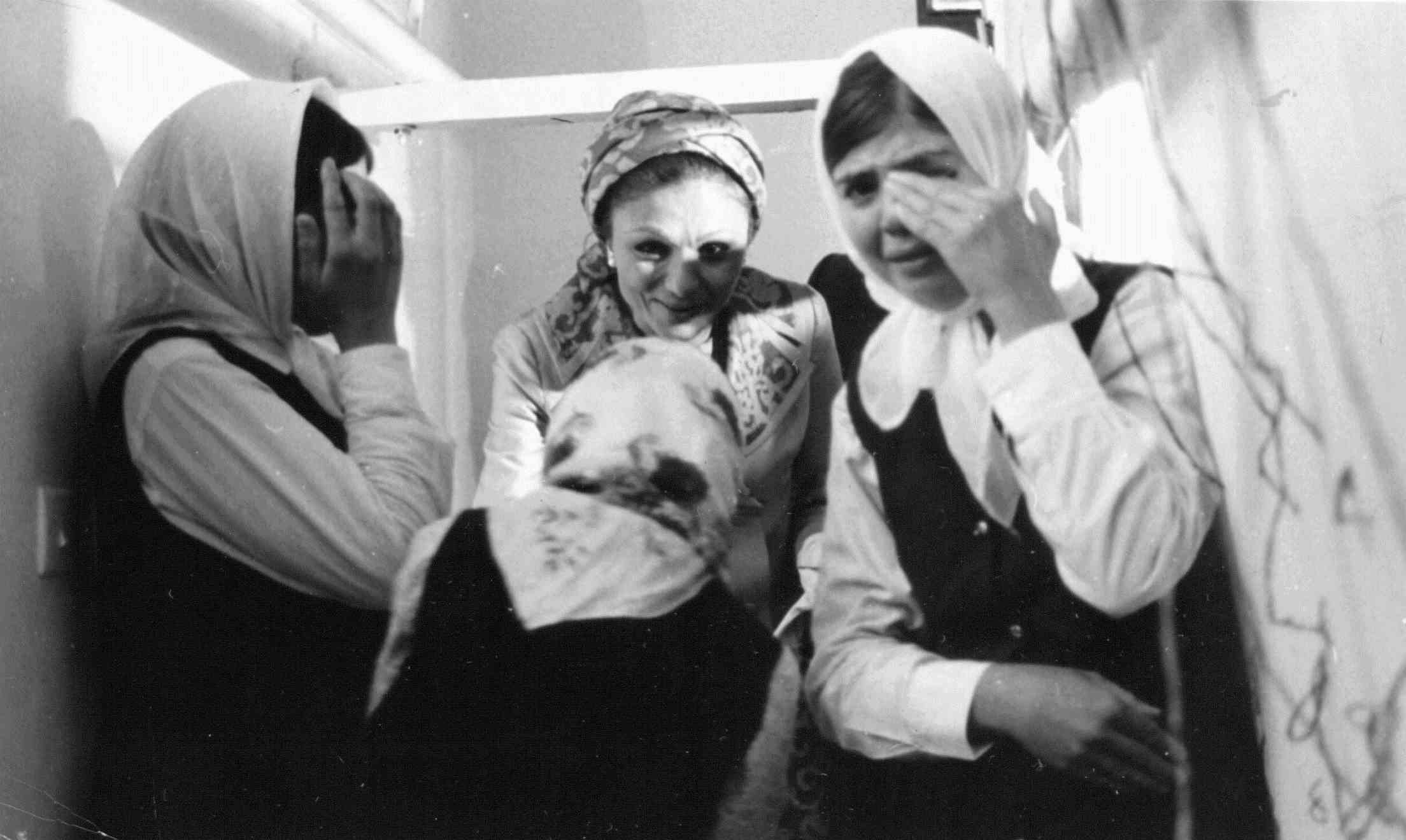 Farah Pahlavi in Birjand